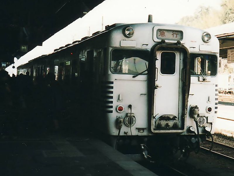 JR Kyushu Type:DMU type kiha58. Code:キハ58 7003 (AQUA EXPRESS) Location:At Hitoyoshi Station, in Hitoyoshi City, Kumamoto. Scanned from negative color print